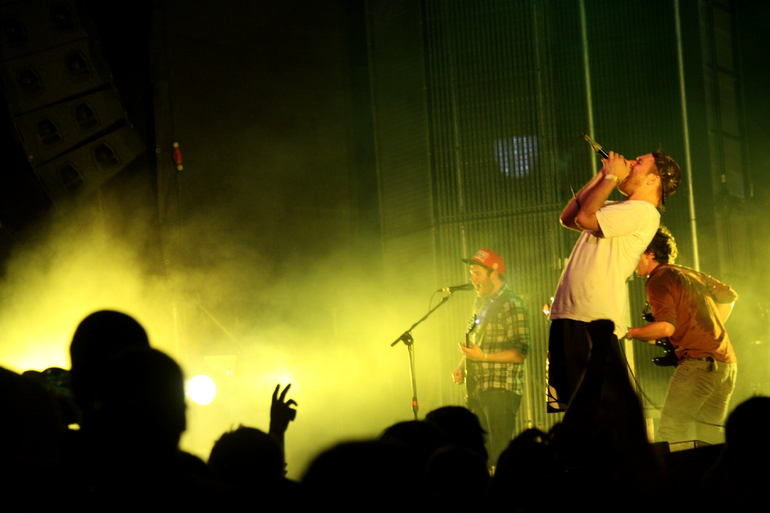 British band Enter Shikari live in 2012